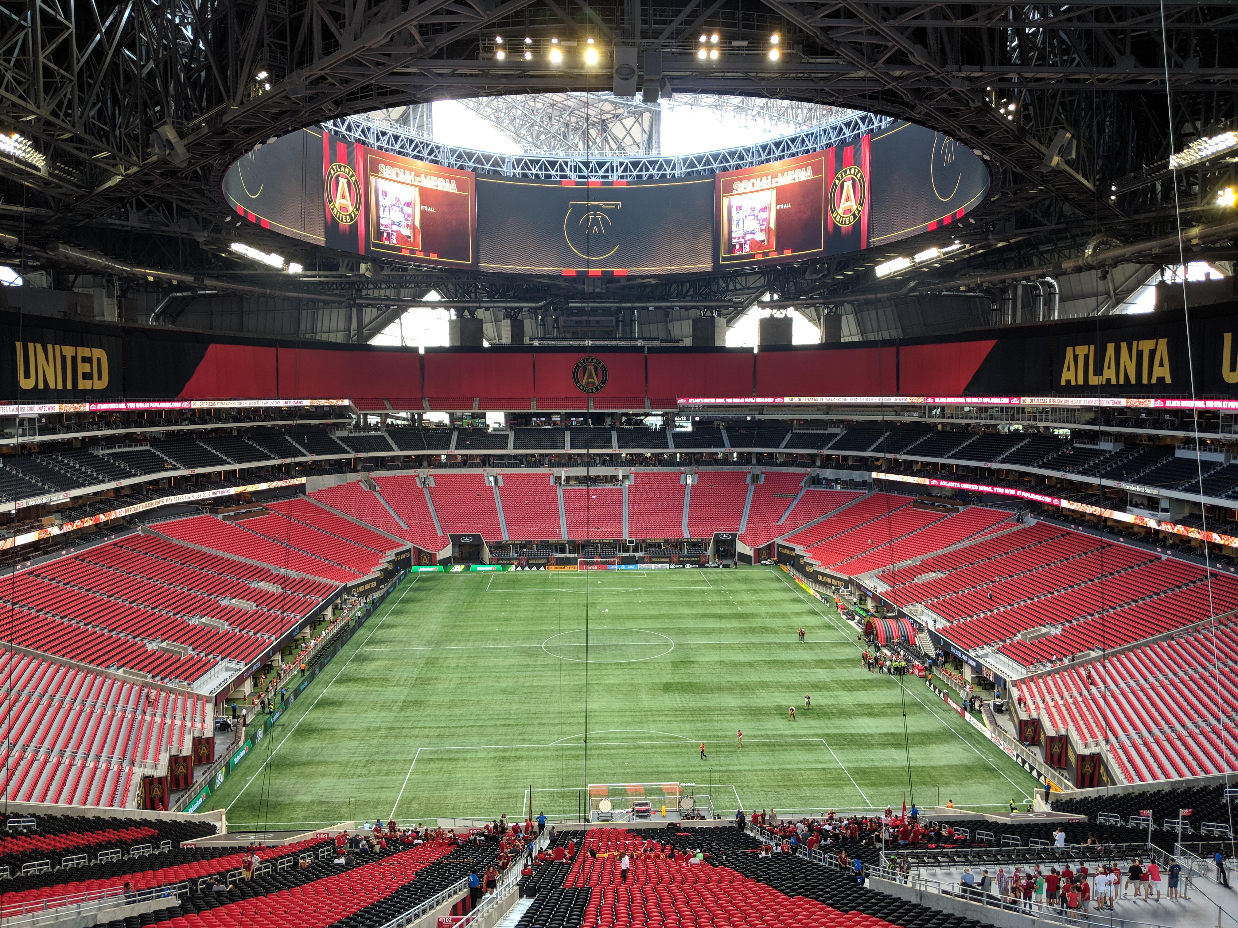 Interior of Mercedes Benz Stadium before Atlanta United game